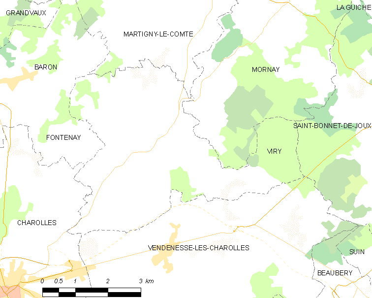 Map of French municipality